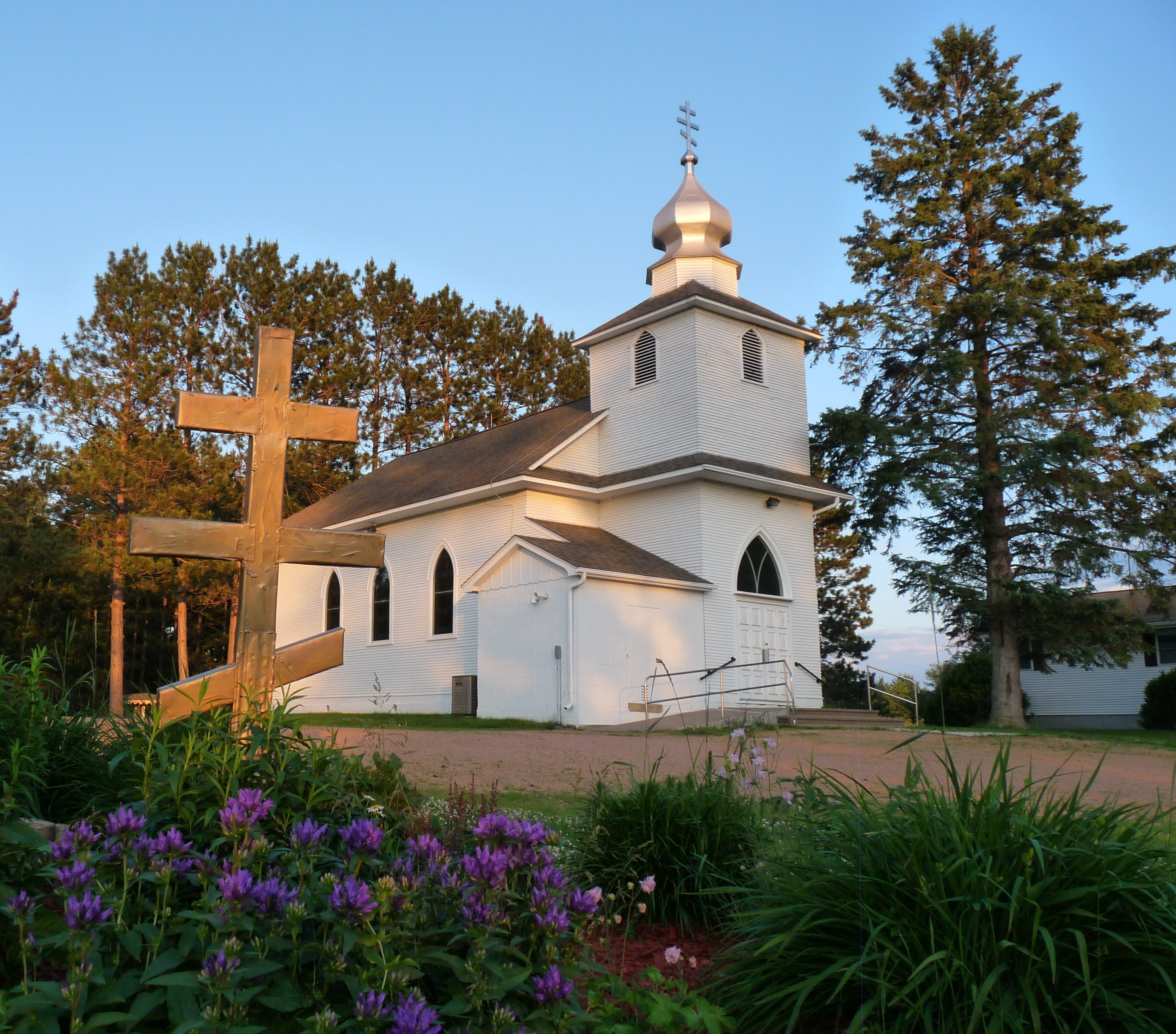 Holy Assumption Orthodox Church in Lublin, Wisconsin serves a congregation with roots in eastern Europe.